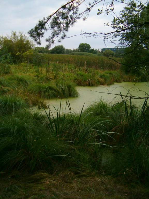 wetlands near Tuchlovice-Srby (Czech Republic), Záplavy Nature Reserve, for rare species of water birds